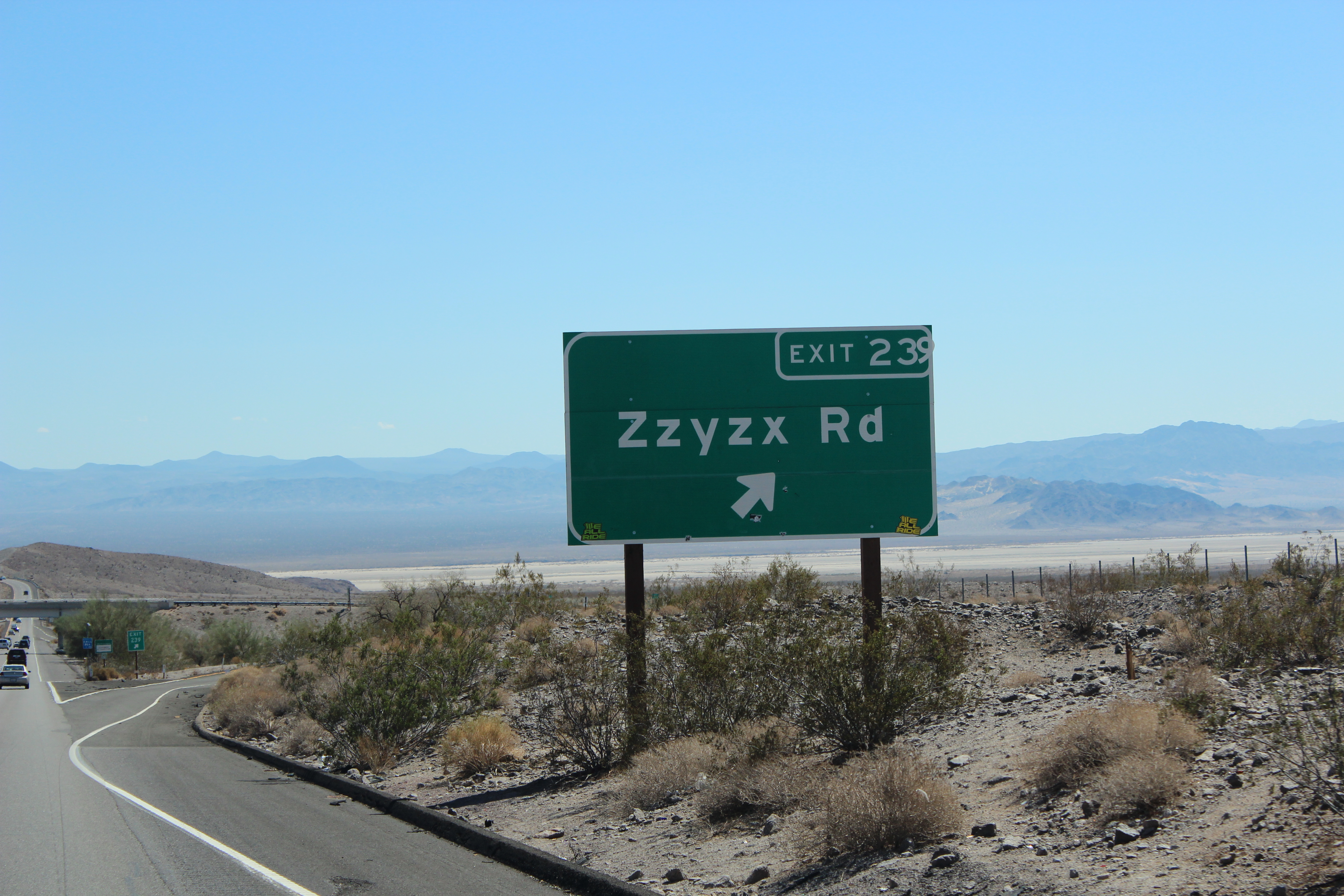 Photography of Zzyzx Road Sign taken in late August 2012